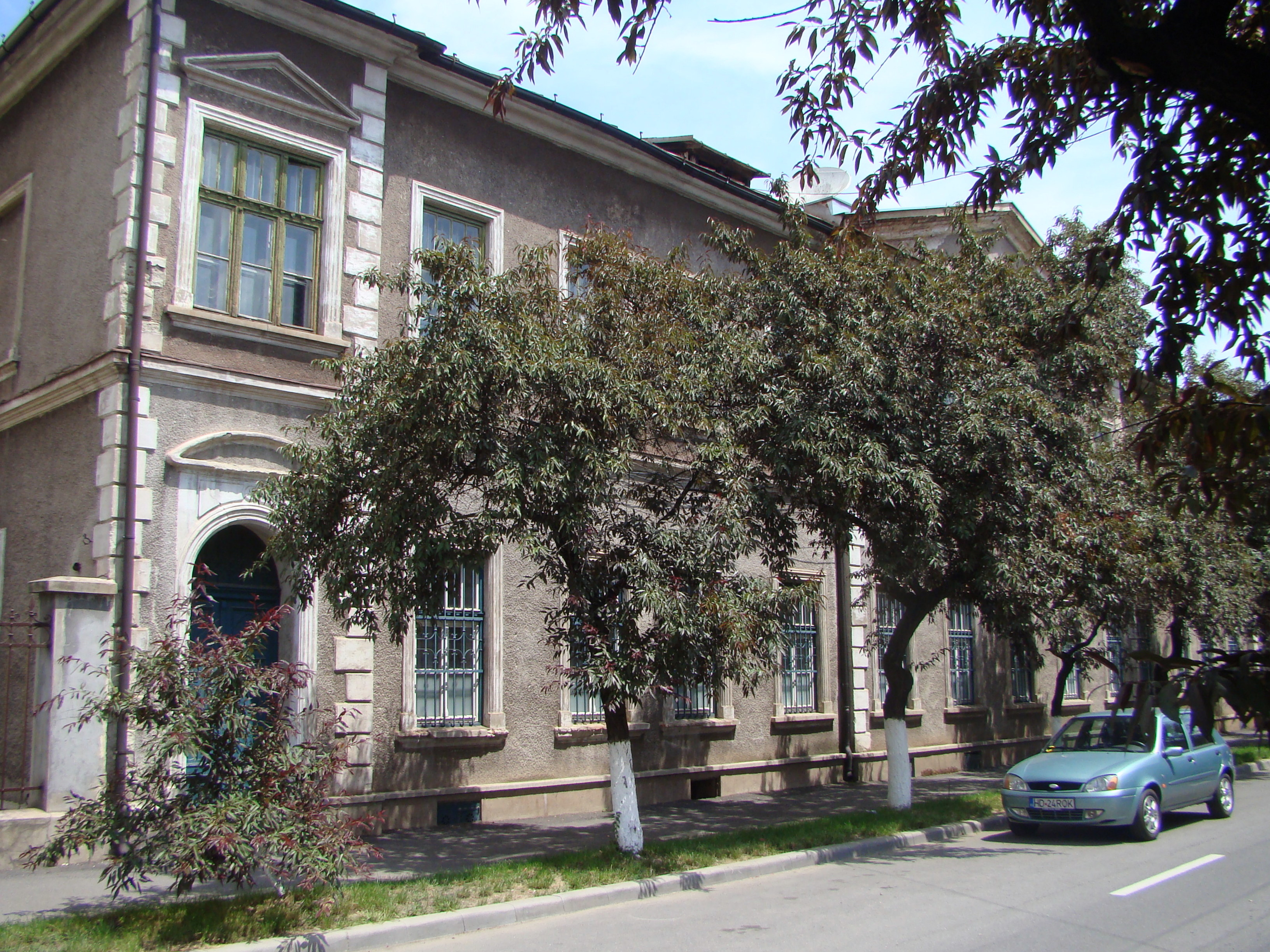 House, historic monument, Revoluţíei street, nr.5